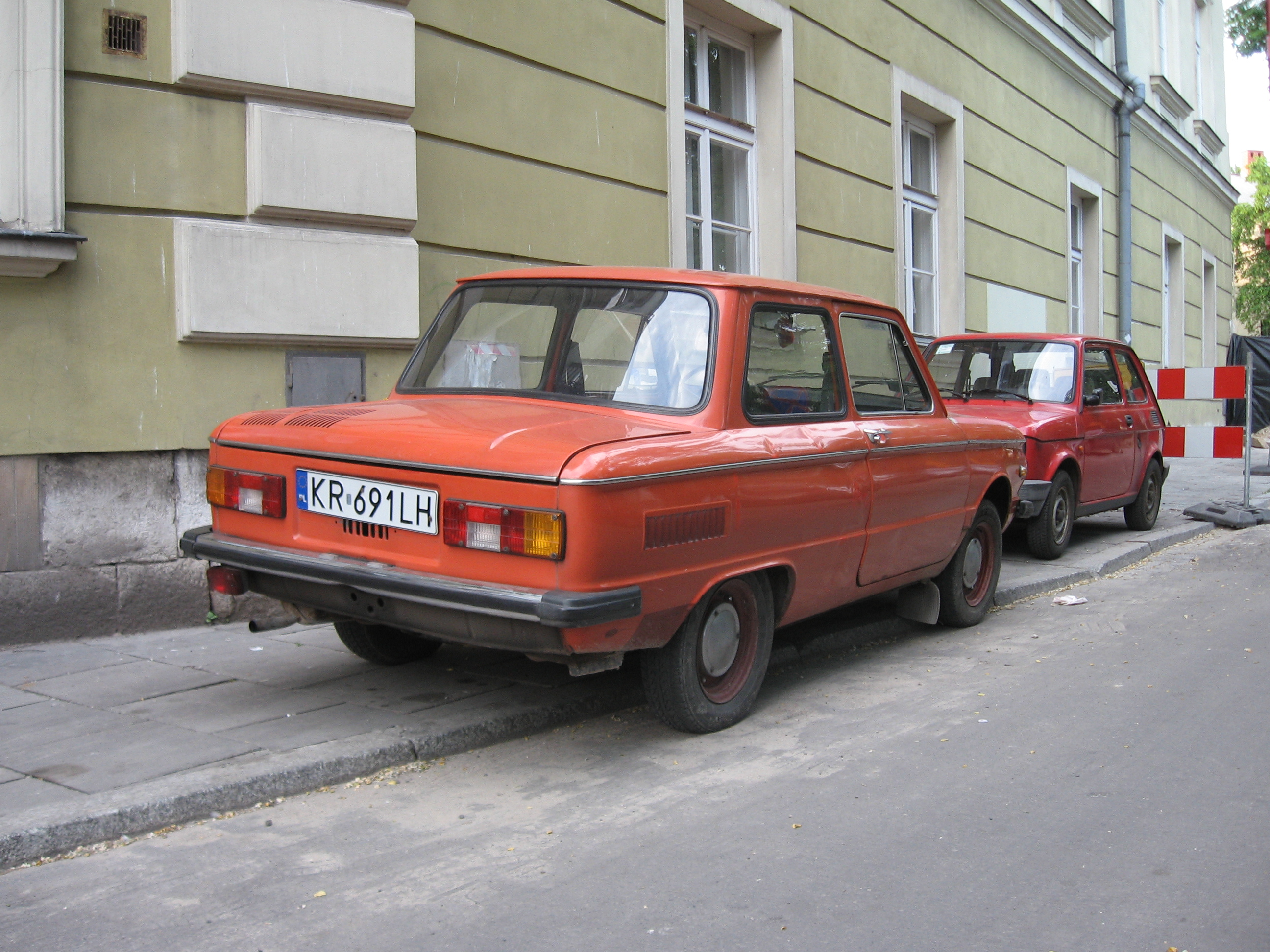 ZAZ-968M on Na Gródku street in Kraków.